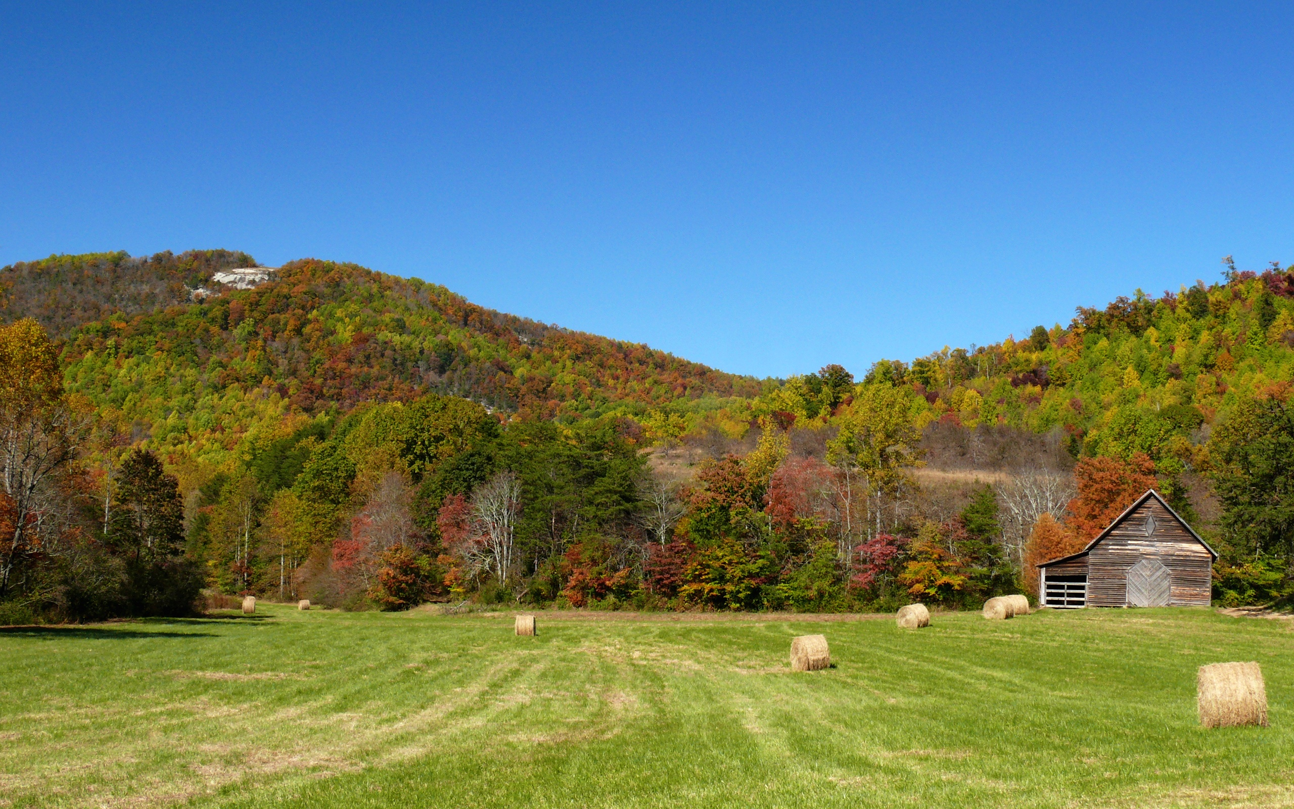 Looking northwest from Mount Olive Church Road, up Seth Deal Branch towards Bald Rock Mountain in the Brushy Mountain range. Photo taken with a Panasonic Lumix DMC-FZ50 in Alexander County, NC, USA.